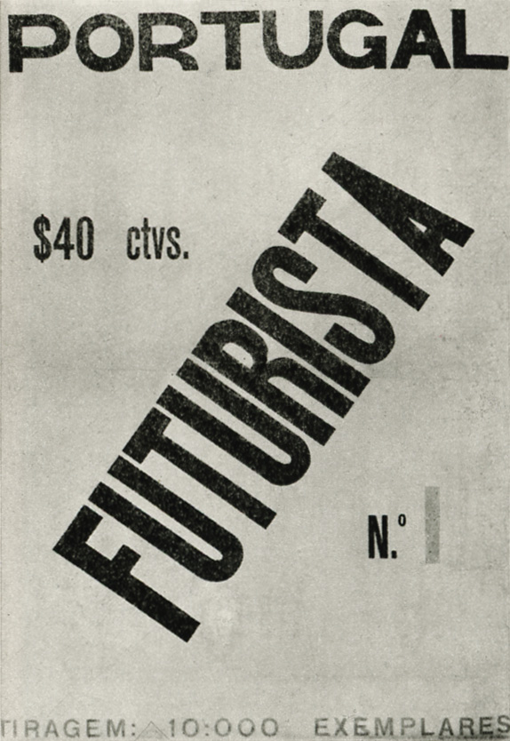 Portugal Futurista Magazine, 1917